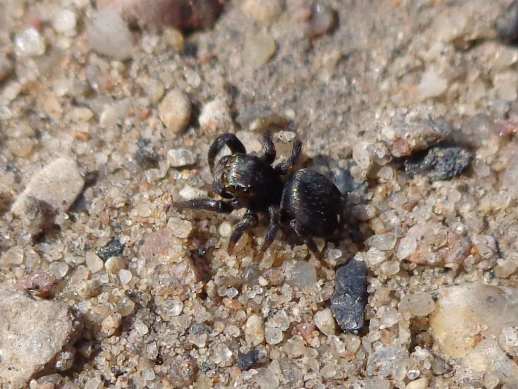 Sibianor aurocinctus. Found in Rīga town, Latvia